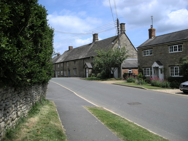 Cottages in Wappenham Road, Helmdon, Northamptonshire. Nos 22 and 24 (just beyond the telephone pole) are 18th-century and Grade II listed.